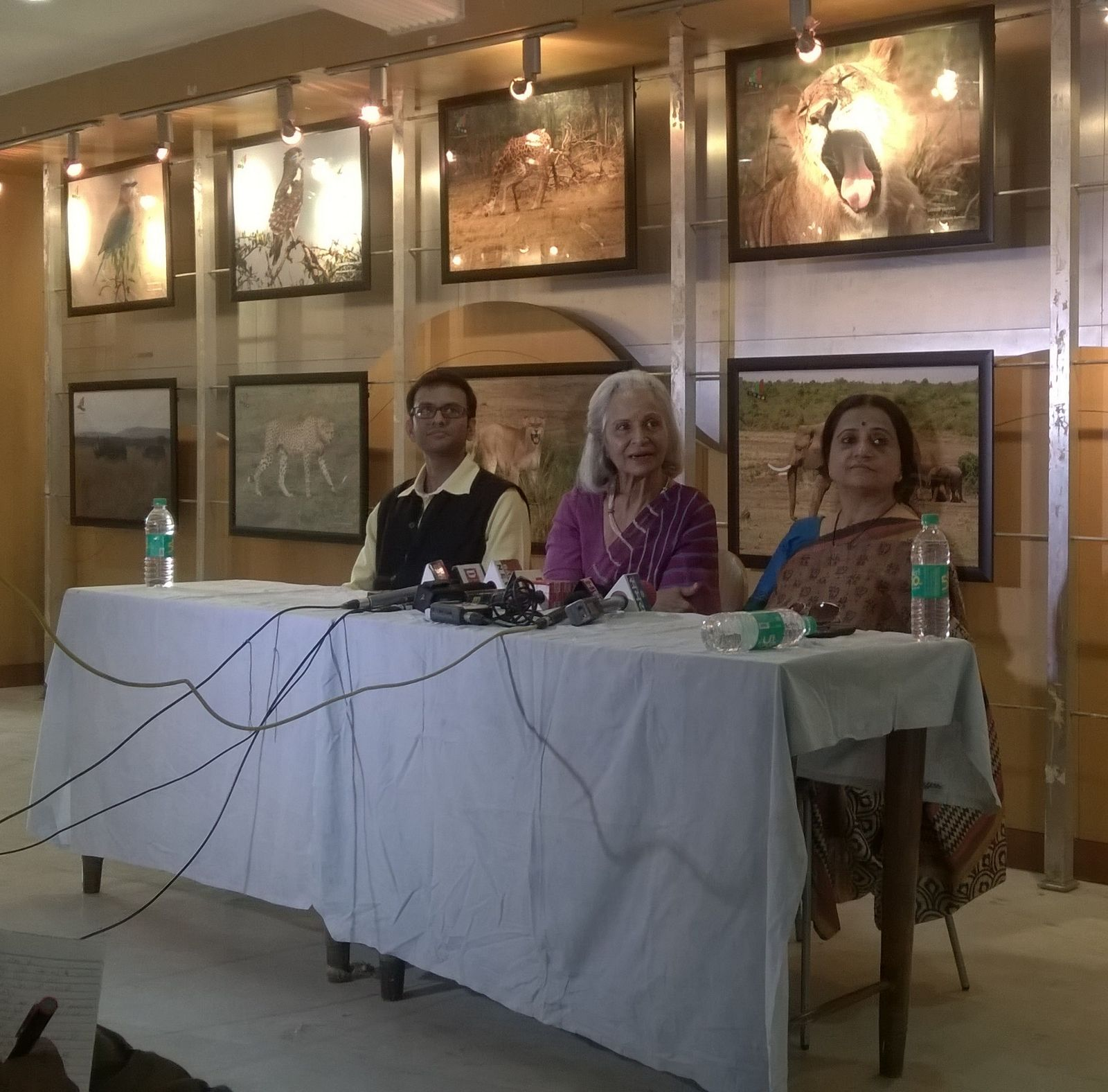 Waheeda Rehman flanked by eminent film critic Bhawana Somaaya and TIFF Director Abhinandan Shukla at a press-conference of TIFF 2015 at Bhopal